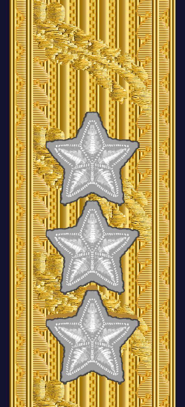 Insignia for Vice Admiral (Swedish Navy) and Lieutenant General (Swedish Amphibious Corps) (OF-8).